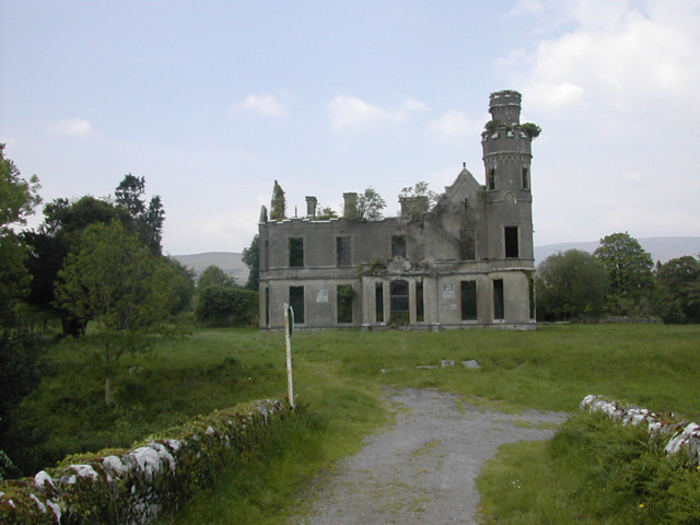 Ardtully Castle. Ardtully Castle (820124), seen from the bridge over An Ruachtach (820131)